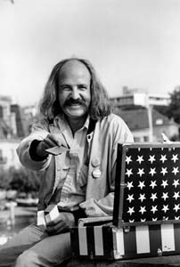 Youri Messen-Jaschin